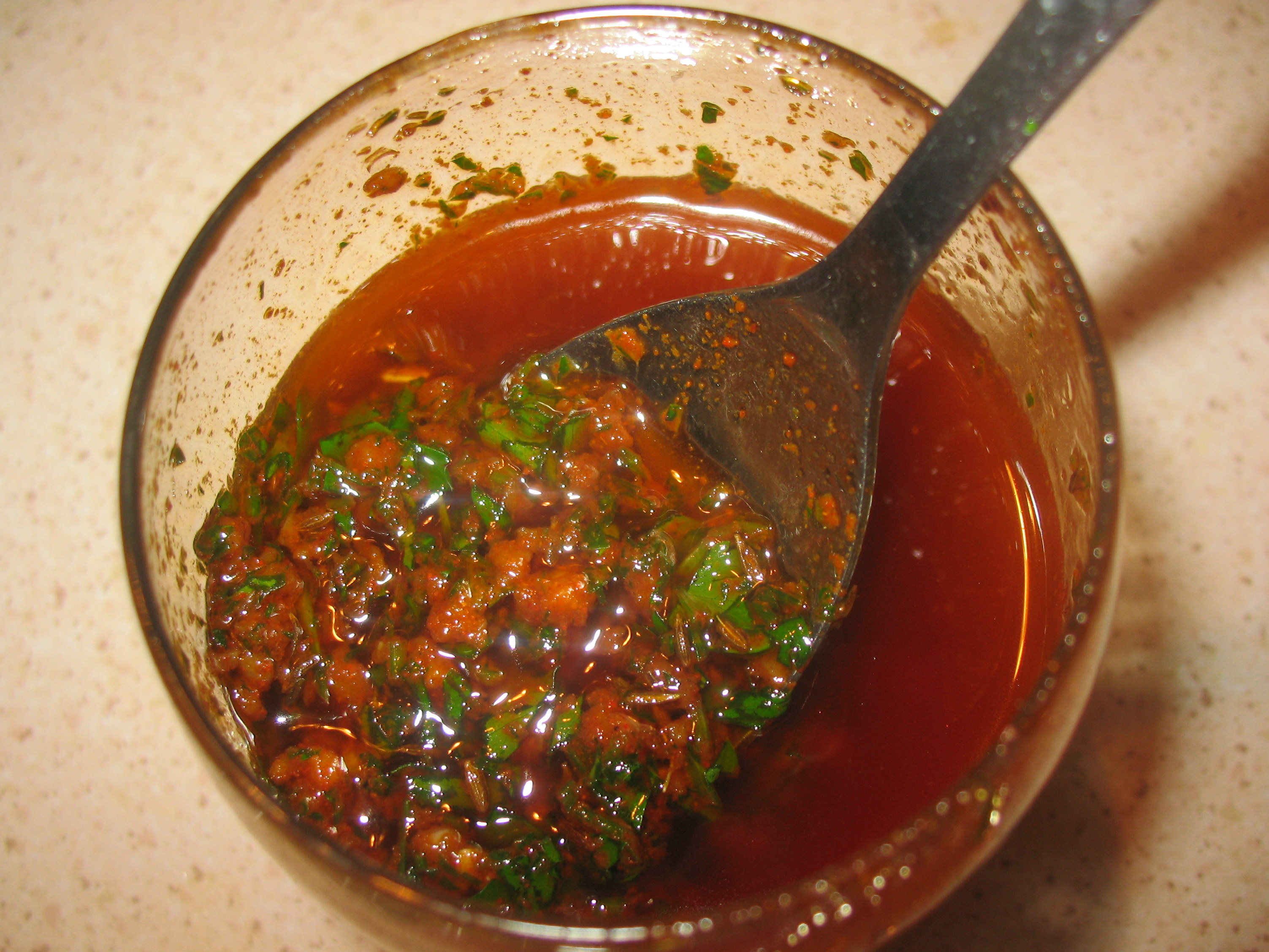 Home-made maroccan chermula